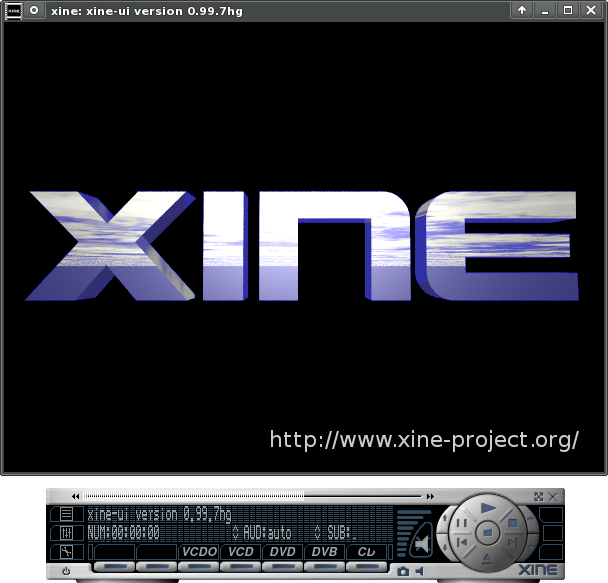 Screenshot of xine 0.99.7 (dev snapshot) on Debian